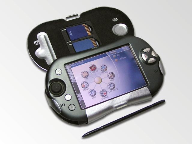 Photograph of my own Tapwave Zodiac console in an Innopocket case. Dekaritae 19:05, 10 August 2006 (UTC)